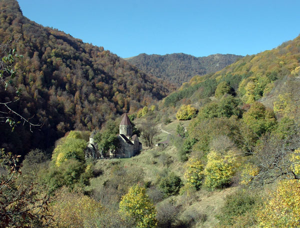 Haghartsin monastery. Armenia